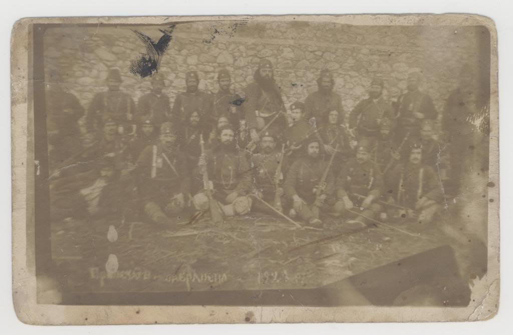 Aleko Vasilev cheta from IMRO - 1921-1924